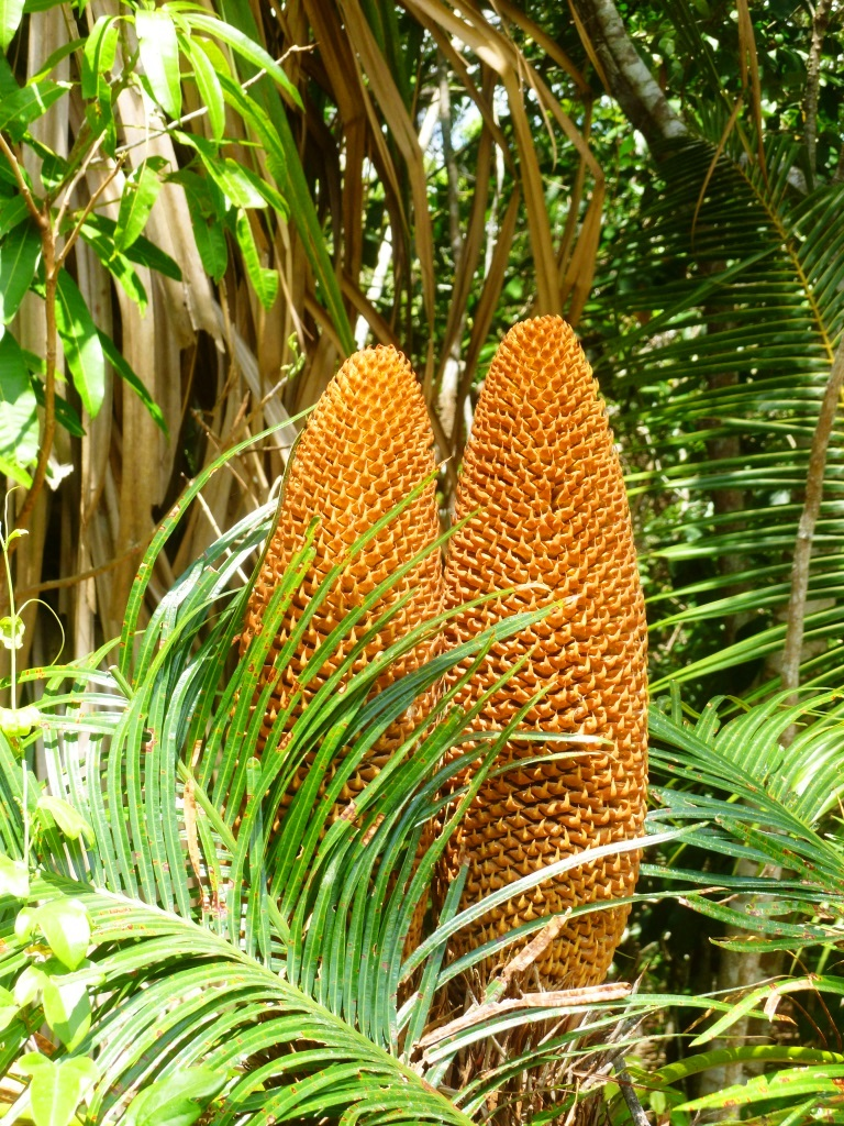 Photo taken near Cooktown, Queensland